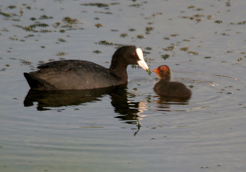 Eurasian or Common Coot Fulica atra at Lotus Pond, Hyderabad, India.